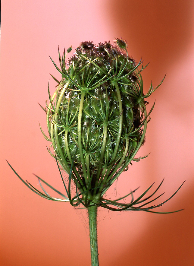 Daucus carota L., wild carrot. Family: Apiaceae.